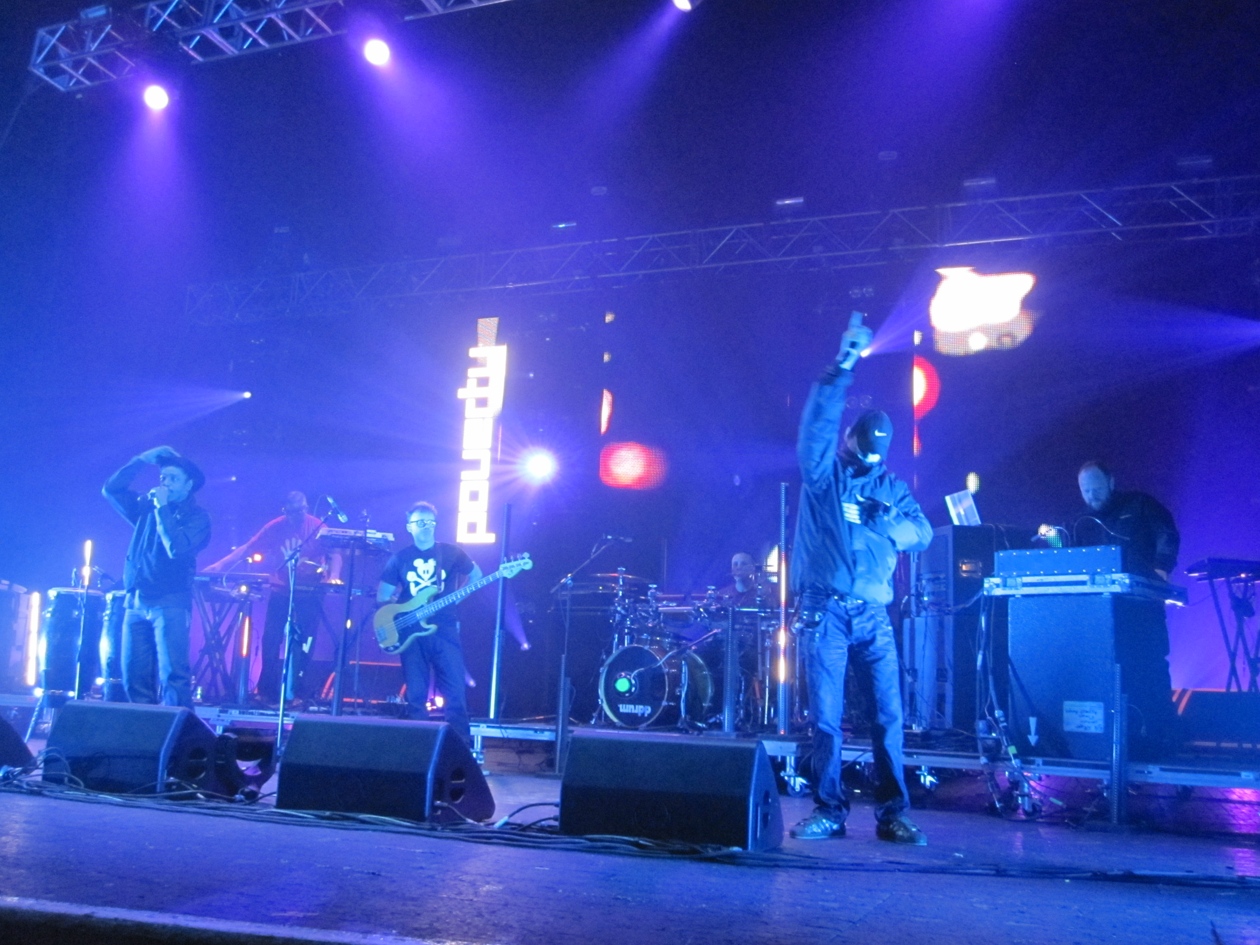 Leftfield playing Release the Pressure live at Brixton Academy, London in December 2010. Left to right: Earl 16, Djum Djum, Neil Barnes, Sebastian Beresford, Cheshire Cat and Adam Wren